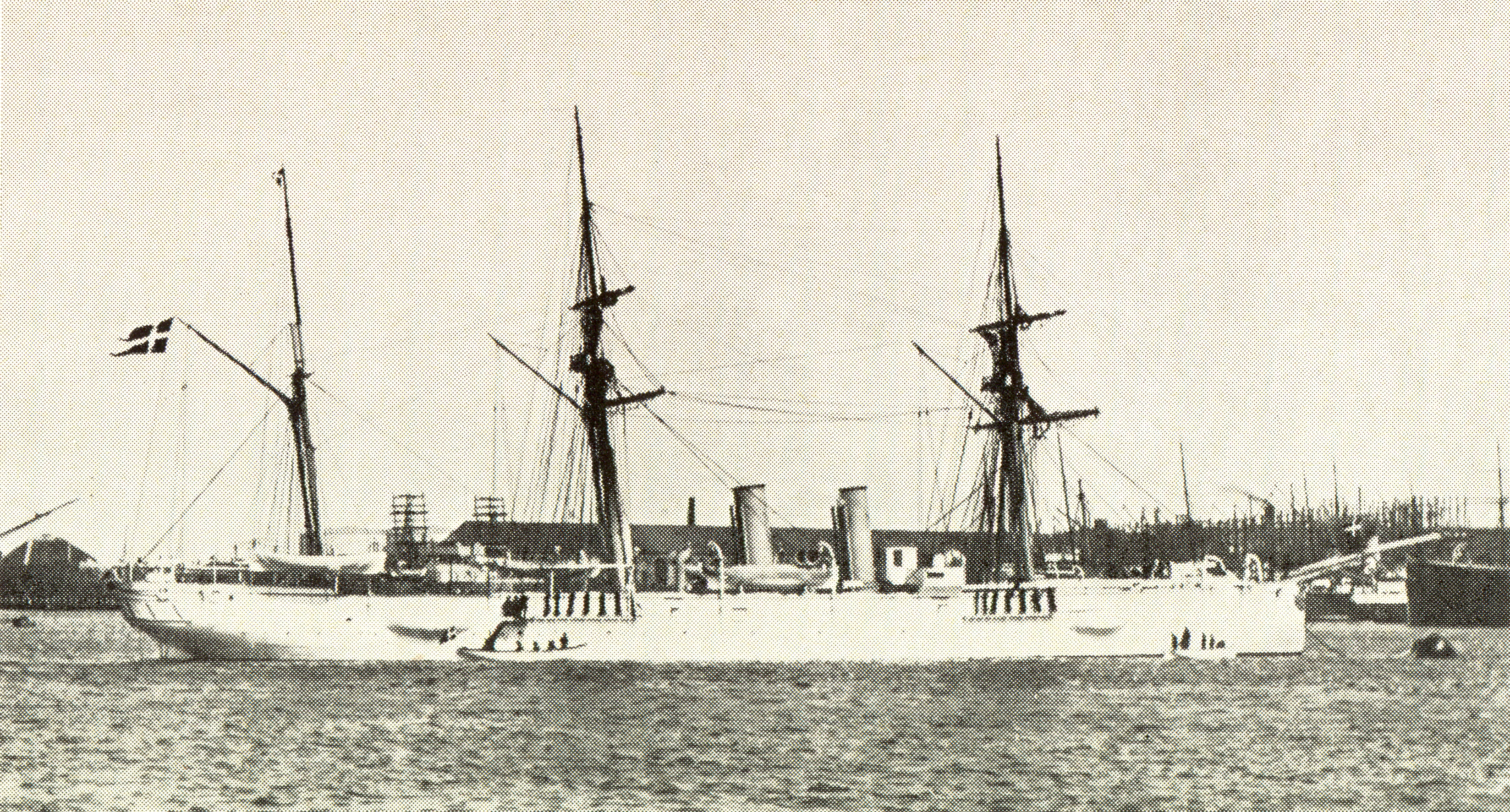 Danish Cruiser St. Thomas